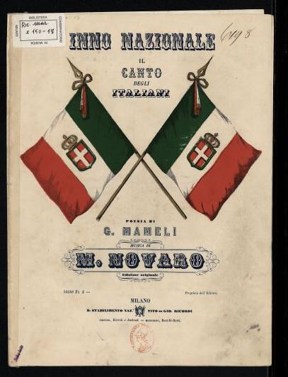 Cover of 1860 edition of "Canto degli Italiani" Italian Nathional Anthem